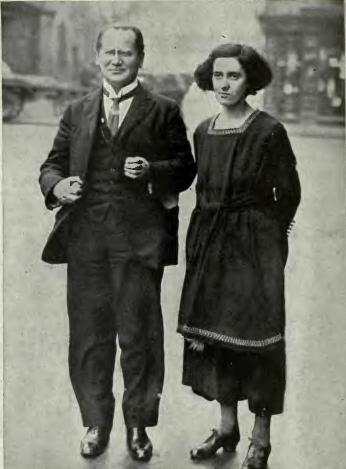 Maxim Litvinov and his wife Ivy Low Litvinov, while he was unofficial ambassador of the Soviet government to the United Kingdom, March 1918